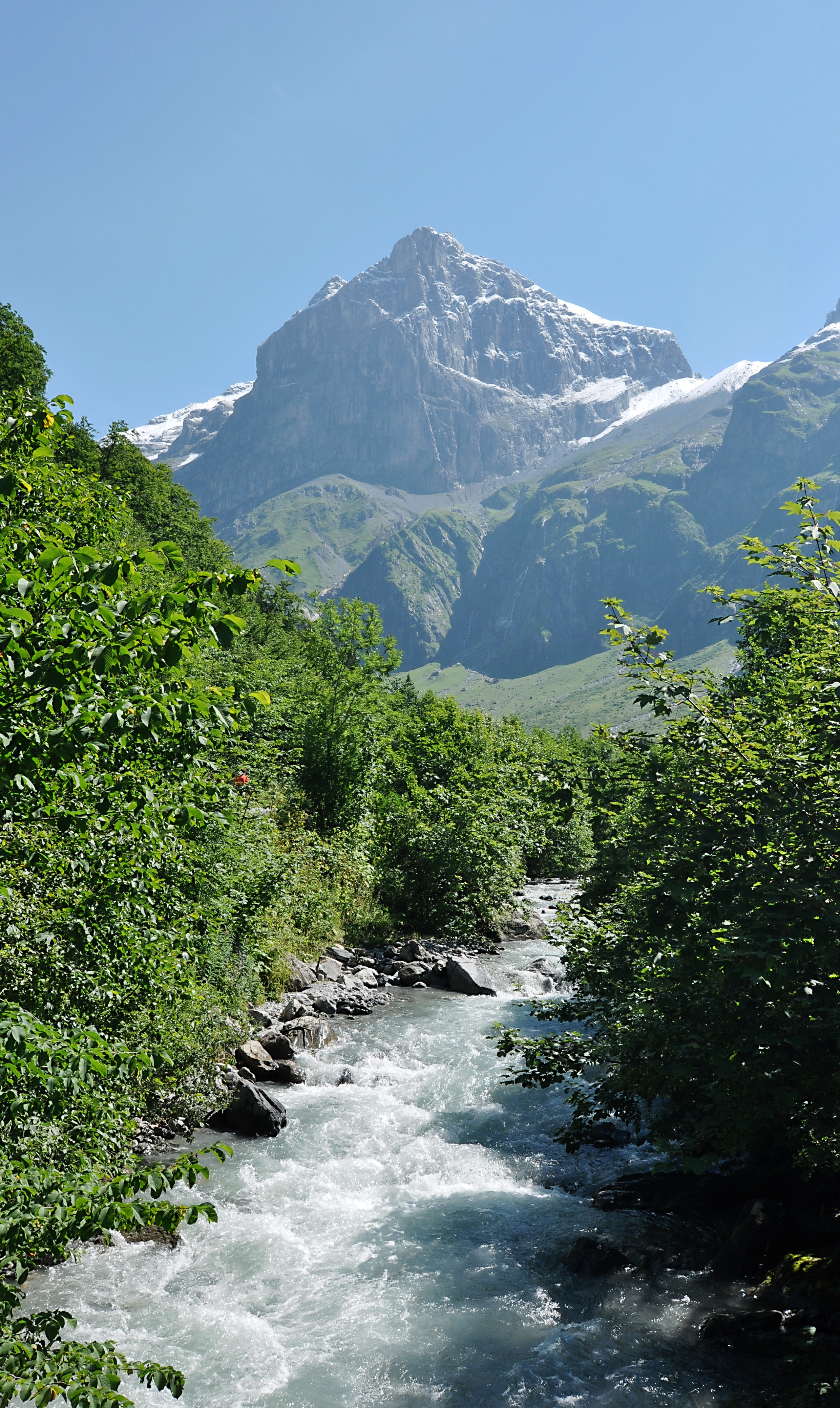 Alluvial forest on the Aa above Engelberg and Schlossberg